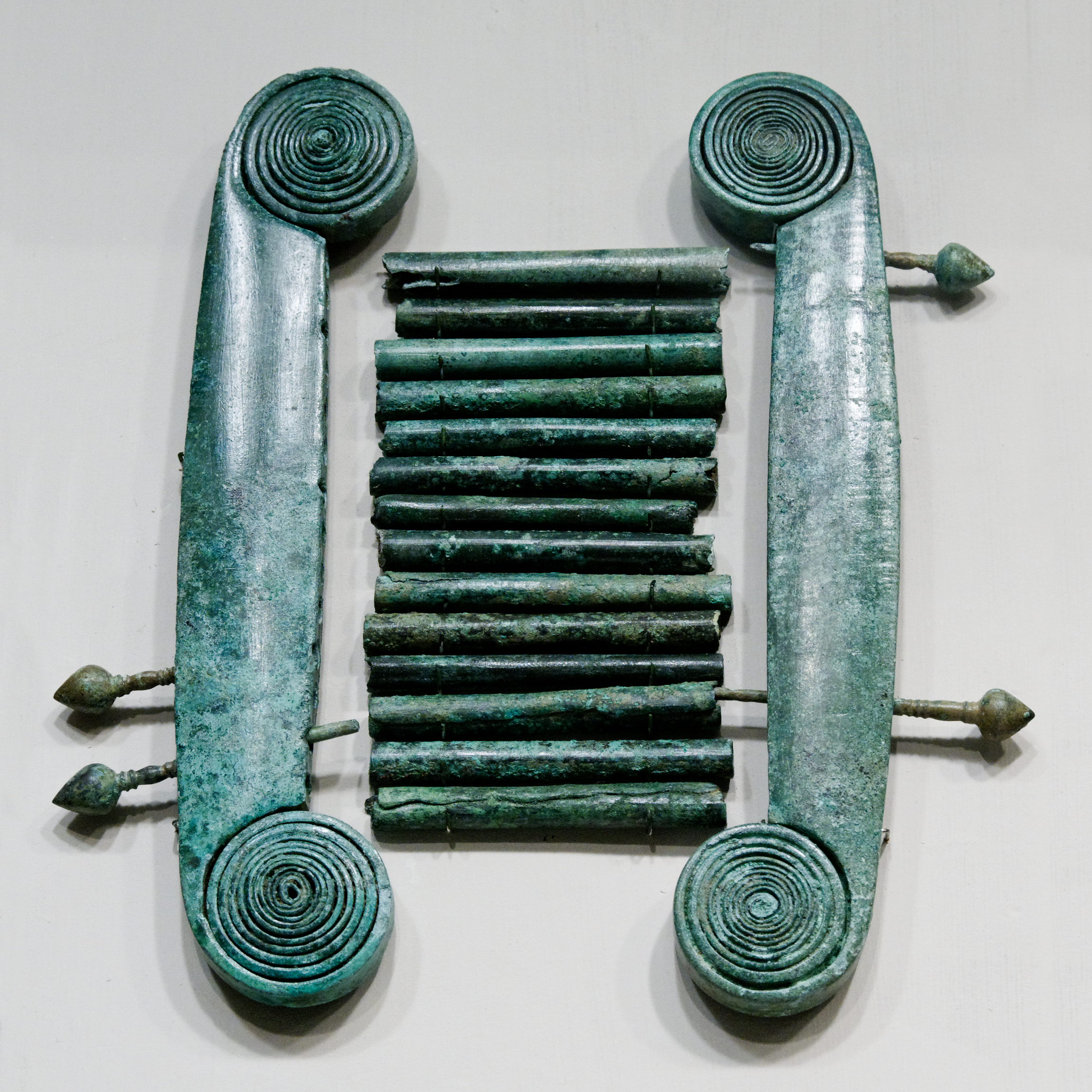 Bronze musical instrument, forerunner of the 4th century BC sistrum.